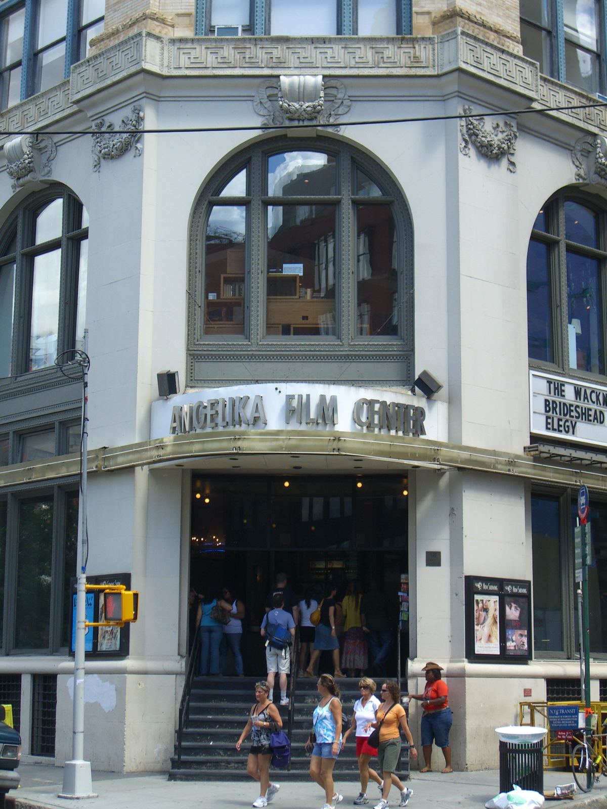 The Angelika Theater at the corner of Houston Street and Mercer Street in Manhattan’s Greenwich Village.